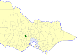 Location of the former Shire of Creswick within Victoria.